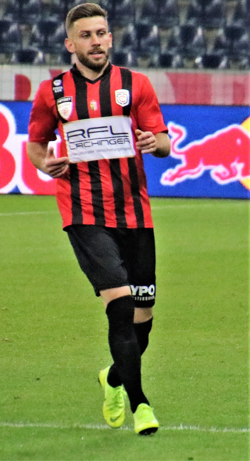 Austria 2nd league league match 23rd round